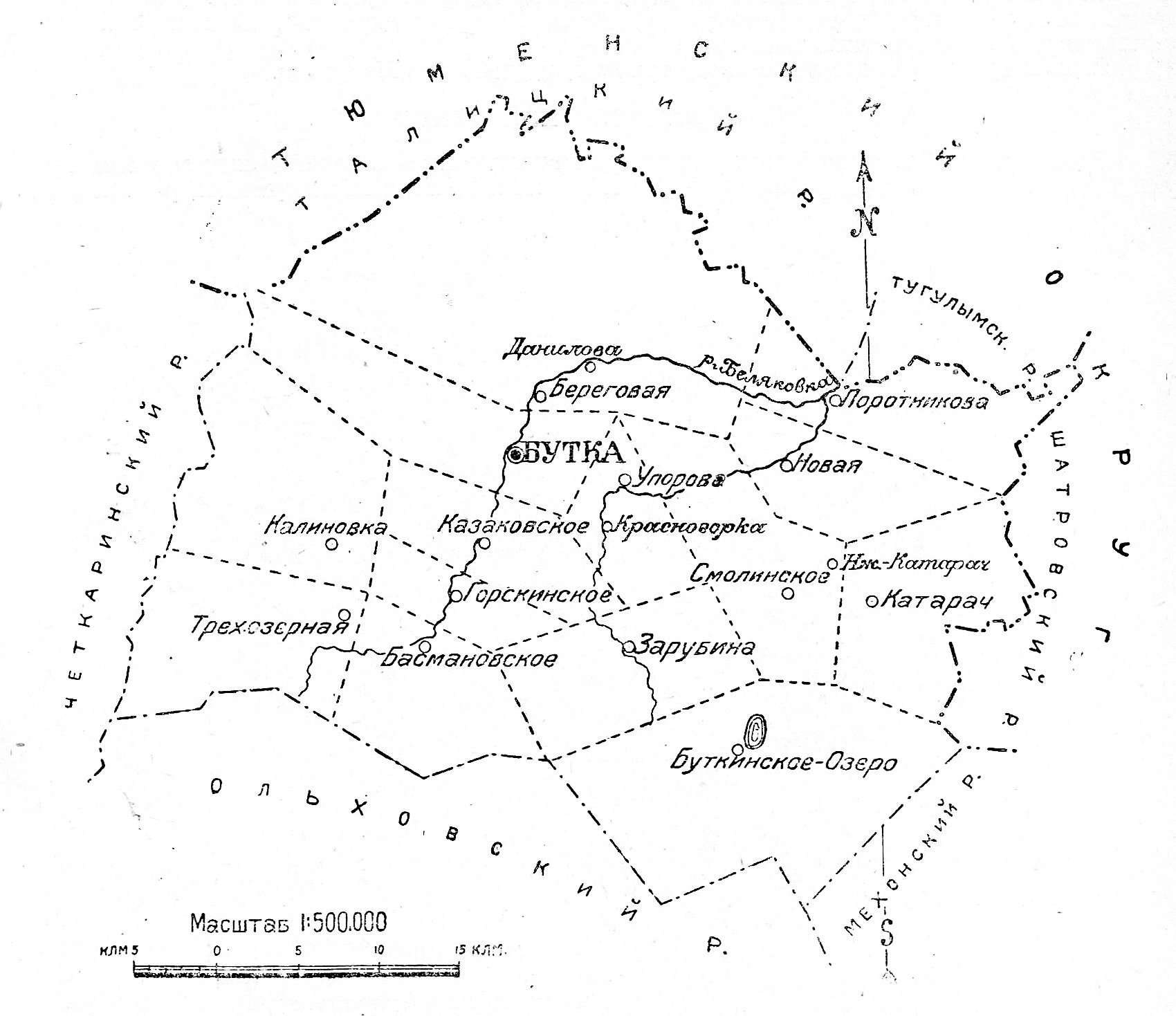 Map of Butkovskiy rayon (Shadrinskiy okrug of Uralic Region of RSFSR) in 1928.